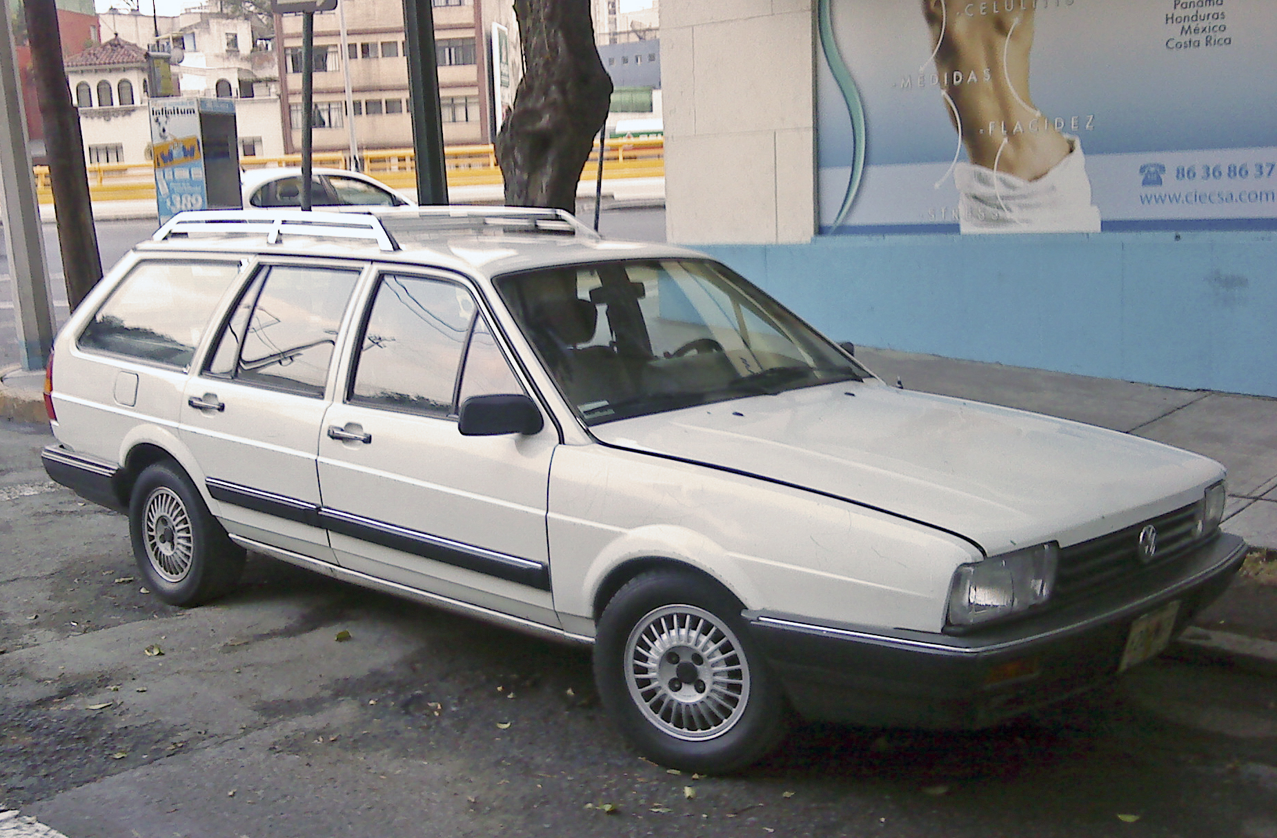 1986 Volkswagen Corsar Variant